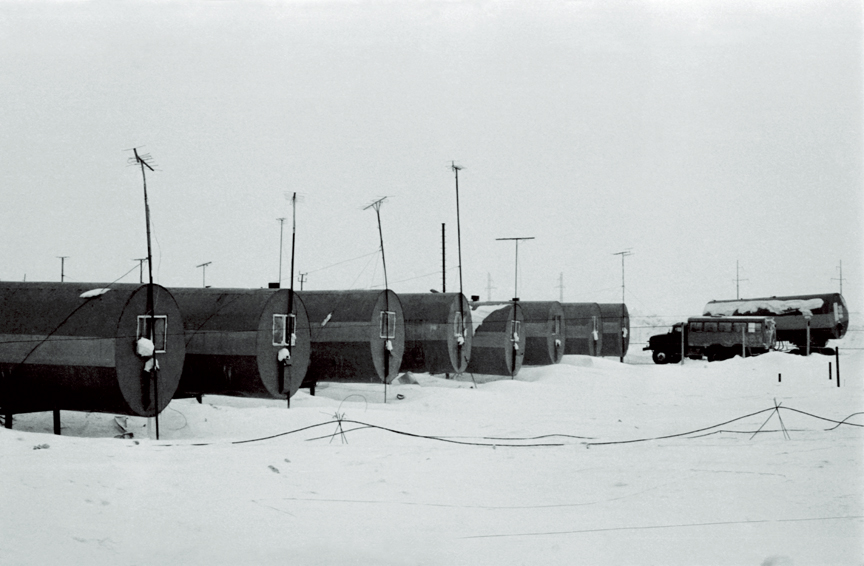 Yamburg, Yamalo-Nenets Autonomous Okrug. Modular Dwellings. 1986